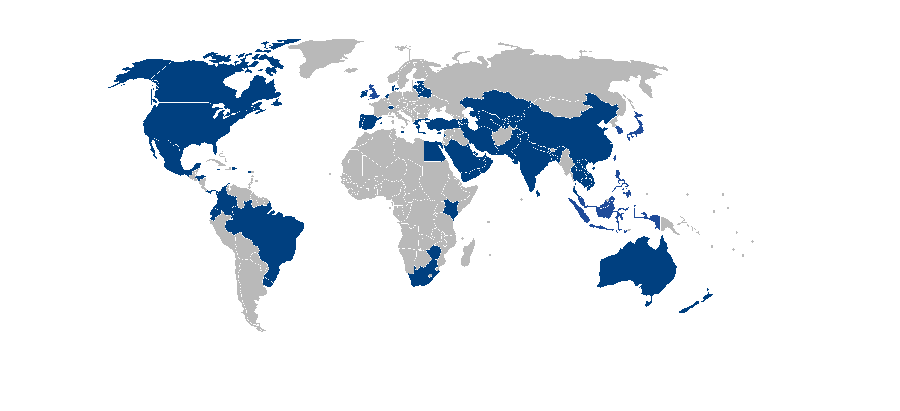 map of nations containing Baskin-Robbins retailers